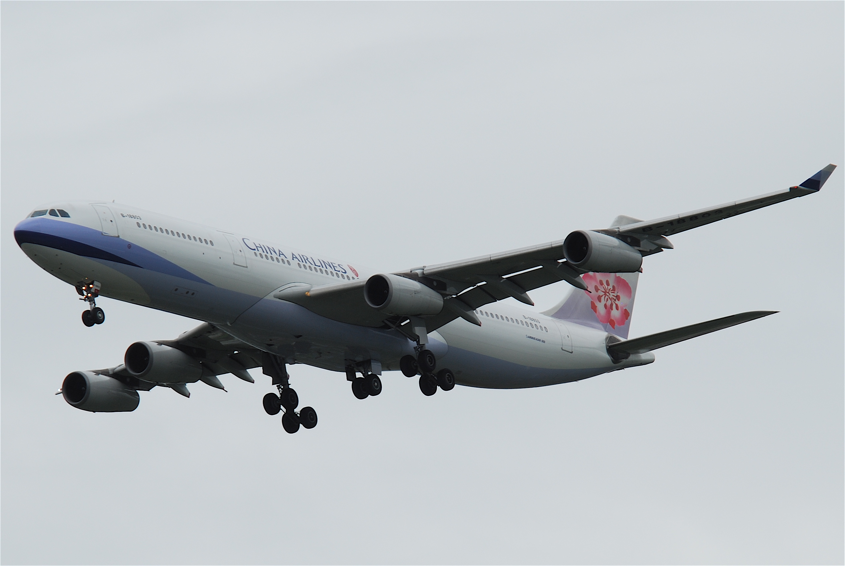 China Airlines Airbus A340-300; B-18803@BKK;30.07.2011/613ee